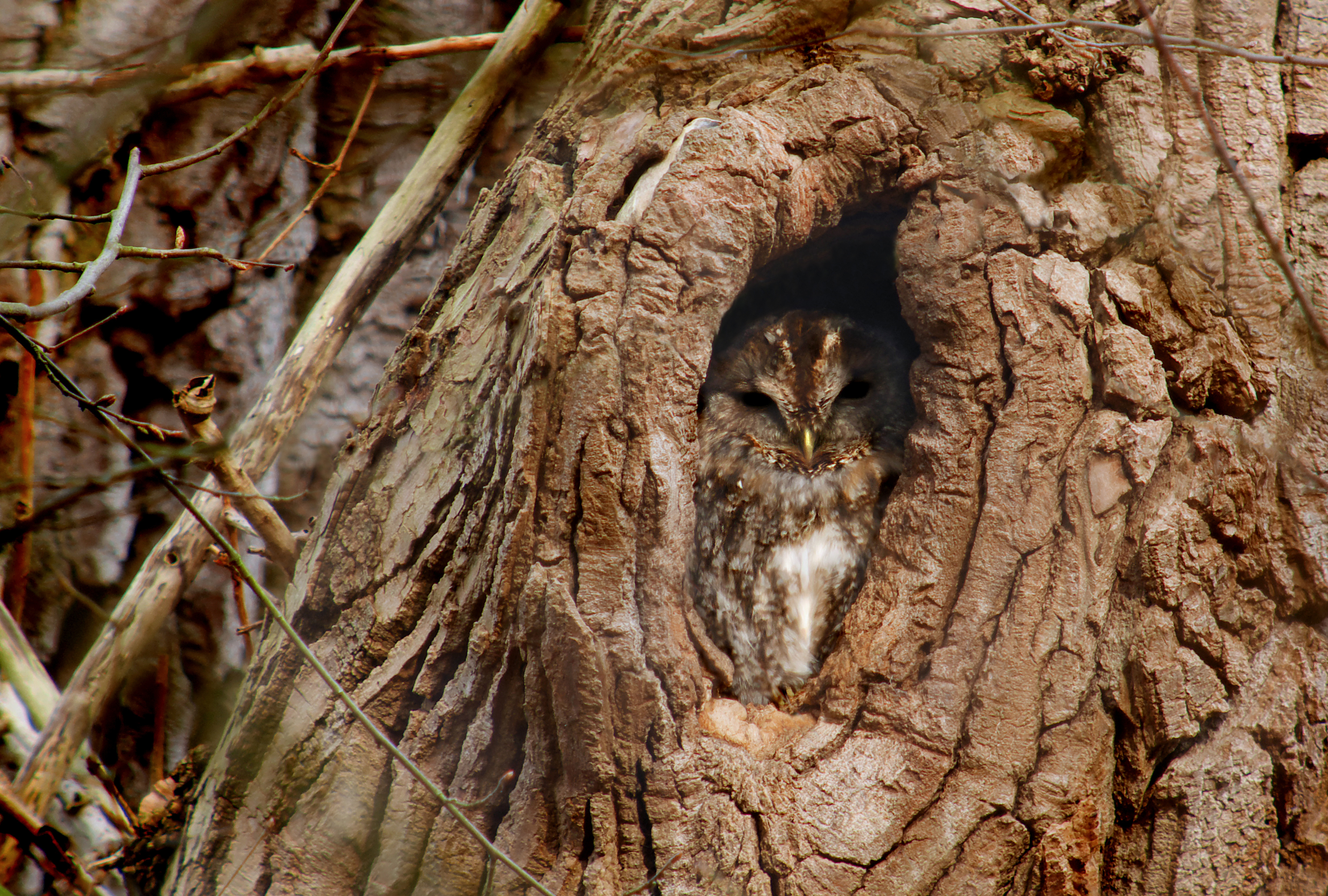 Digiscoping with Swarovski ATM 80 HD 30 X, Panasonic GX7 + Lumix G 20mm F1.7 ASPH lens (Adapter DCB)